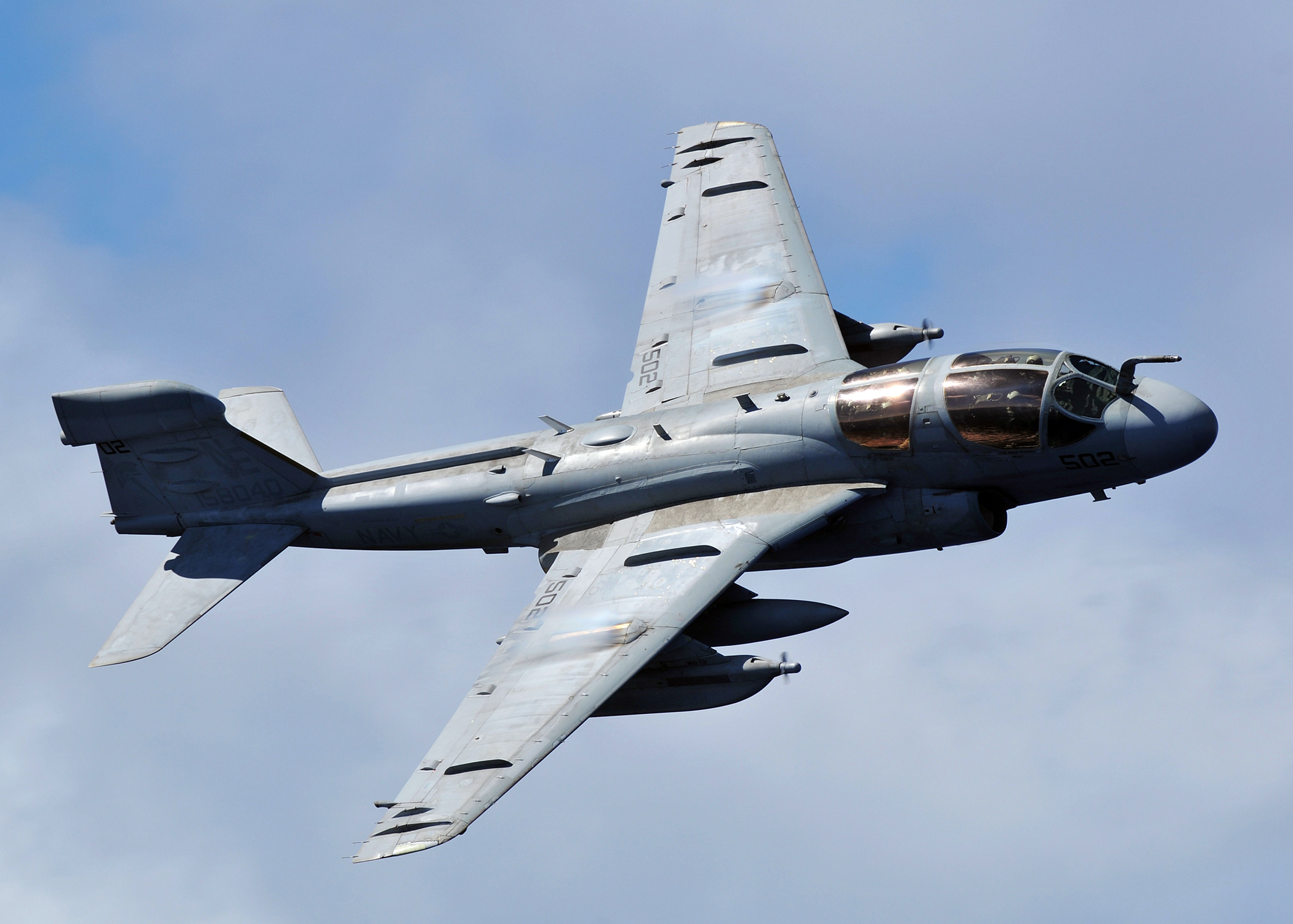 PACIFIC OCEAN (Sept. 29, 2008) An EA-6B Prowler assigned to "Lancers" of Electronic Attack Squadron (VAQ) 131 banks over the Nimitz-class aircraft carrier USS Abraham Lincoln (CVN 72) during an air power demonstration performed by aircraft from Carrier Air Wing (CVW) 2. The USS Abraham Lincoln Strike Group is on a scheduled deployment in the U.S. 7th Fleet area of responsibility operating in the western Pacific and Indian oceans. (U.S. Navy photo by Mass Communication Specialist 2nd Class James R. Evans/Released)